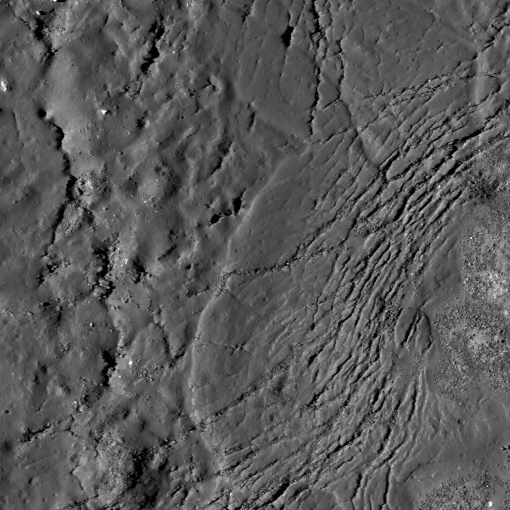 Cracks form in the impact melt sheet on the floor of Necho Crater. Image width is 1.04 km